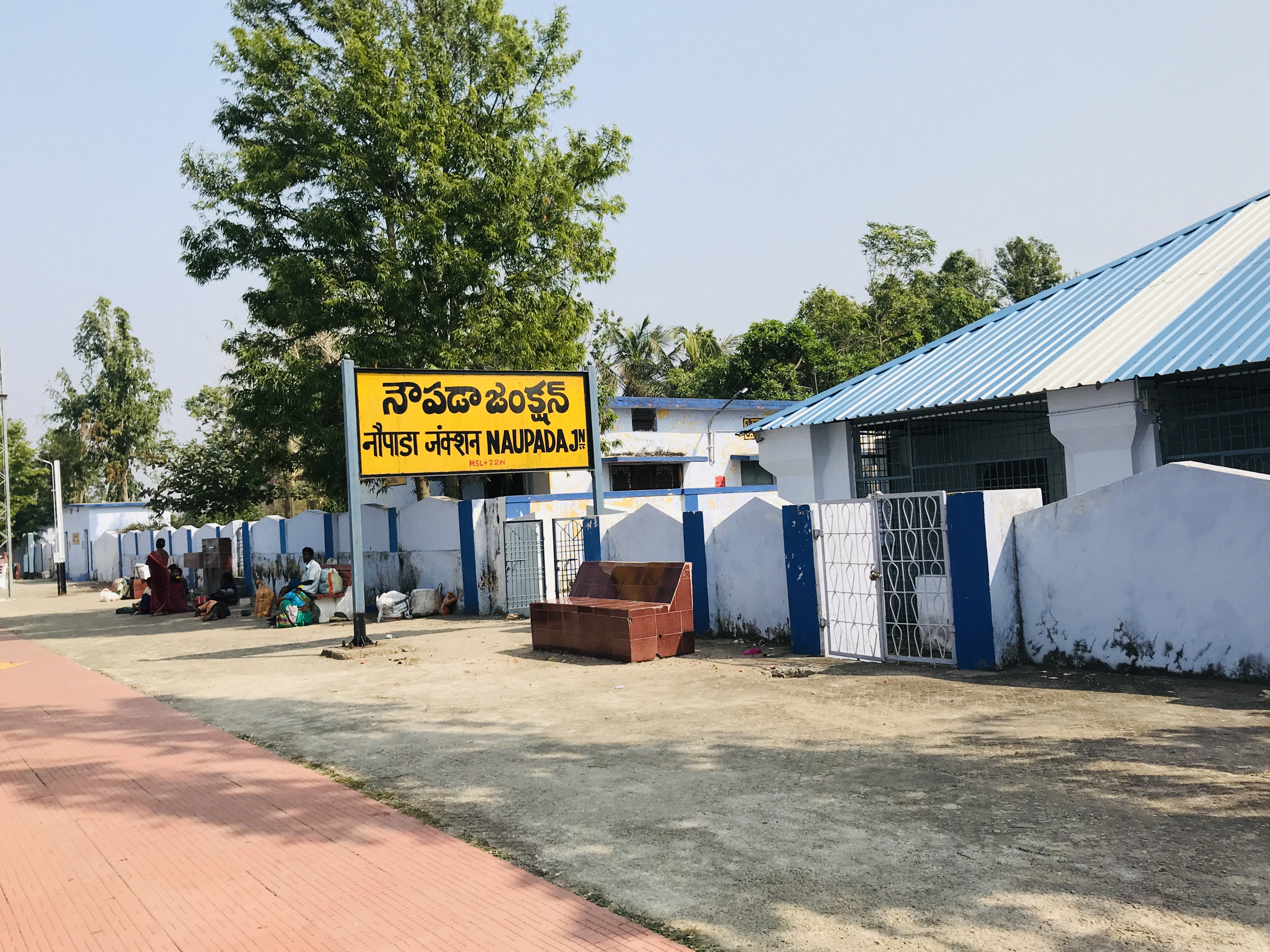 Naupada junction railway station name board